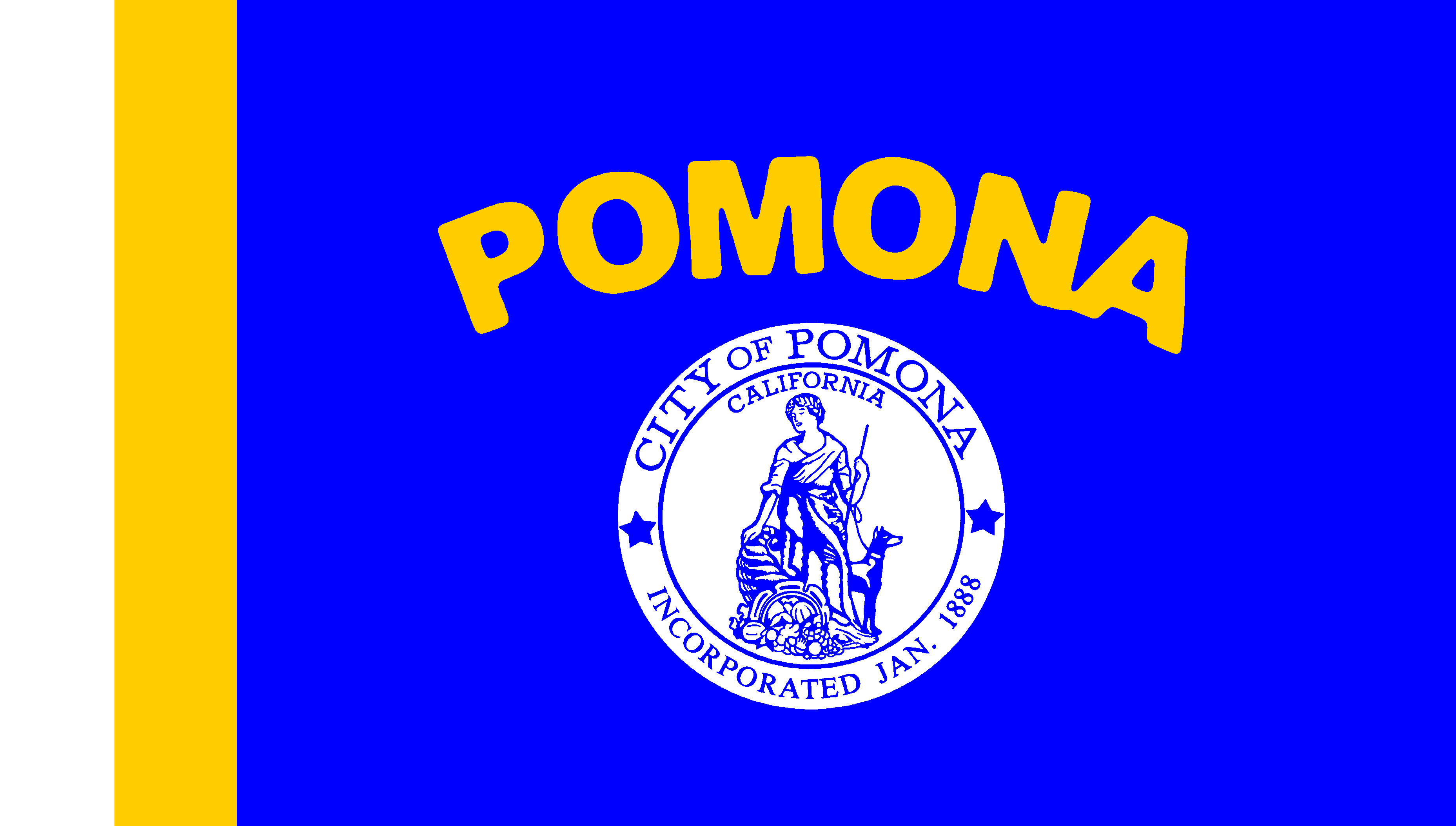 The official city flag of Pomona, California.